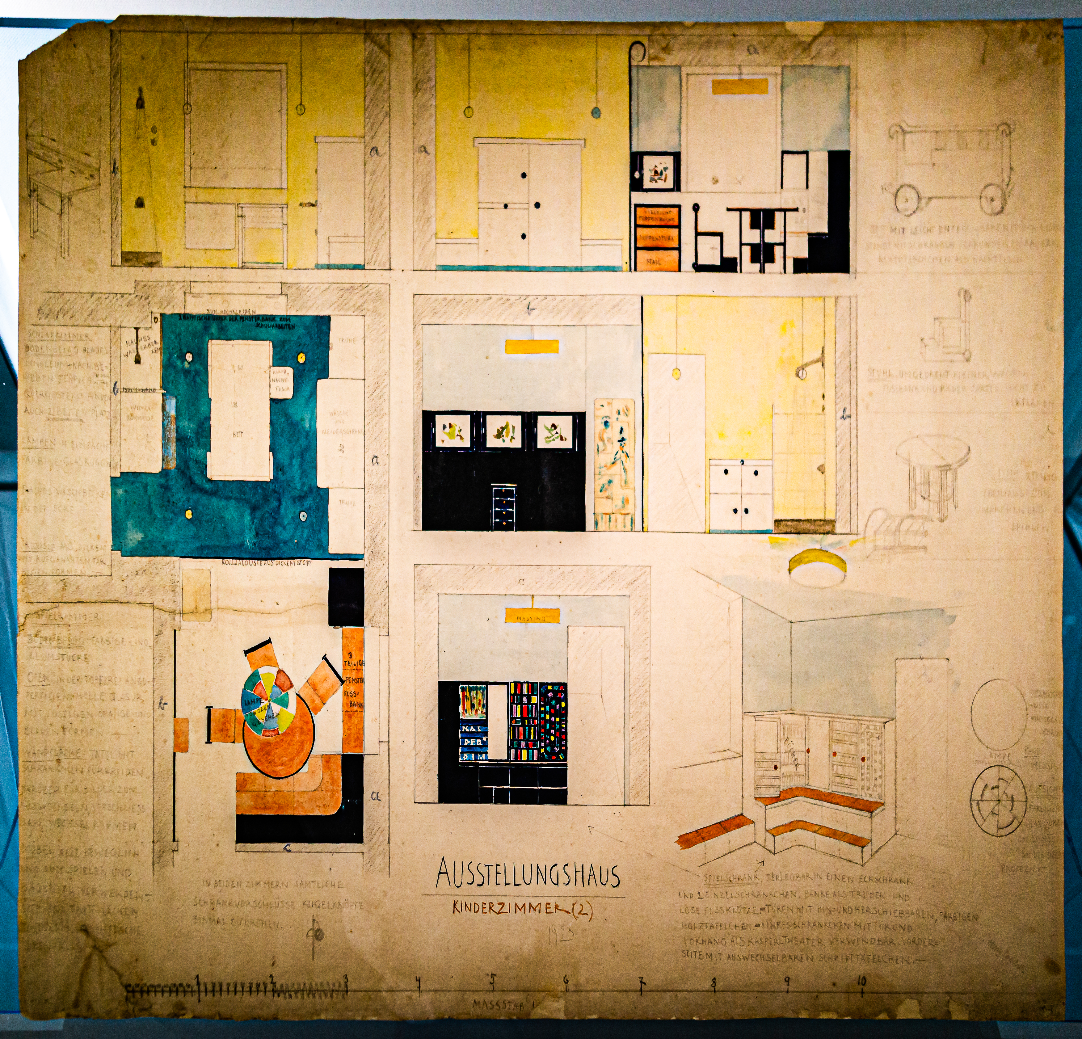 Children's room for the model house Am Horn, design